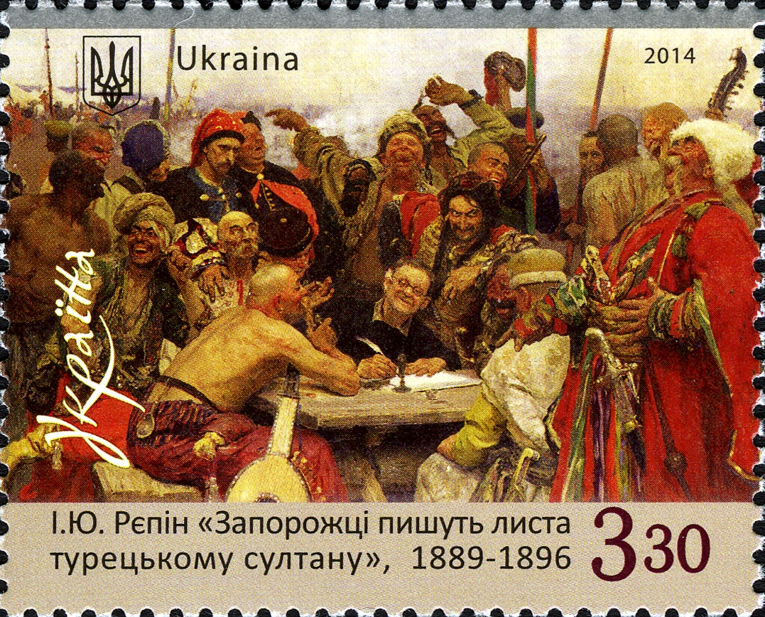 Stamps of Ukraine, 2014